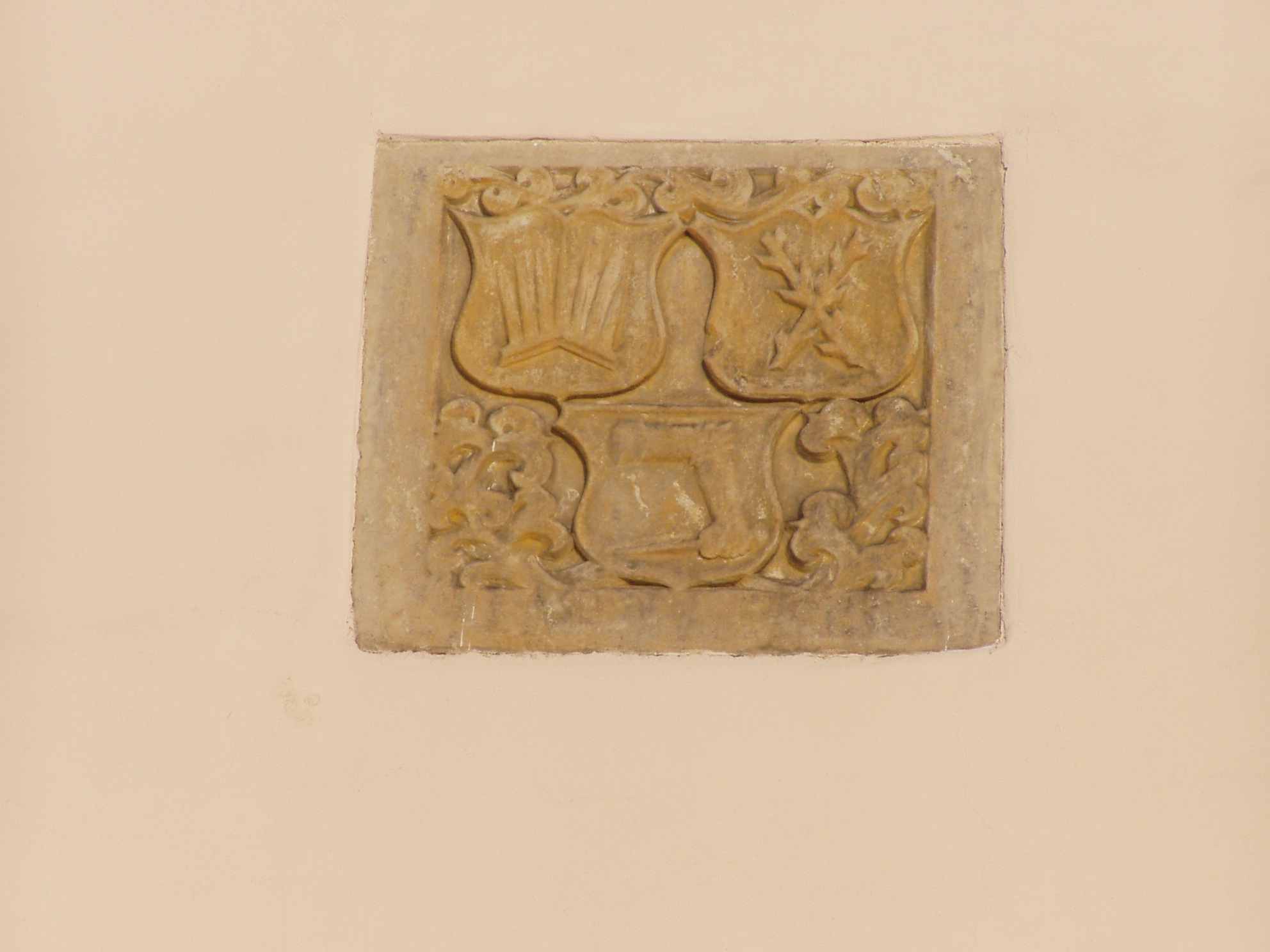 Kunčina - heraldy relief